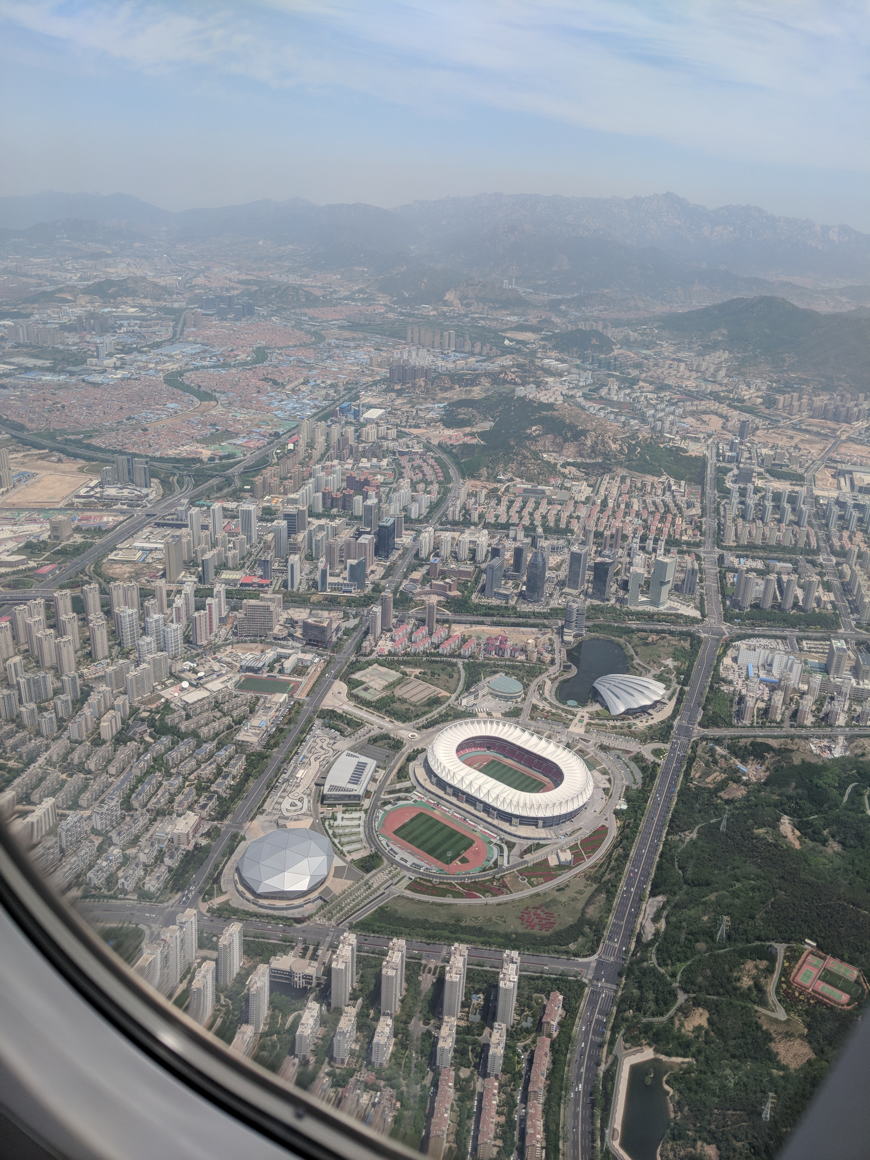 Qingdao Guoxin Stadium